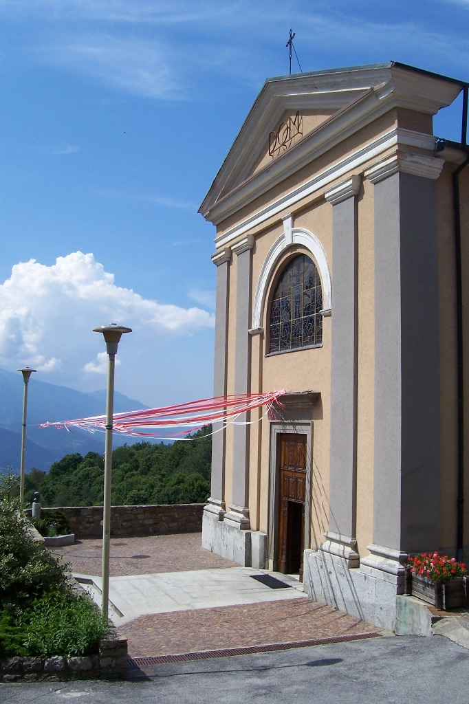 Church of San Gaudenzio. Paspardo, Val Camonica